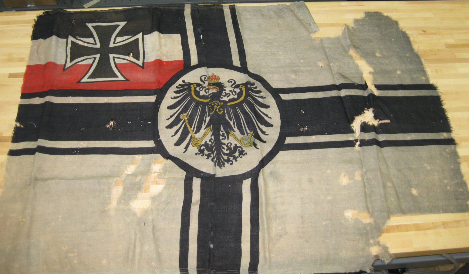 Accession: 71-567-B Flag, Imperial War Ensign, German The flag was acquired by the donor from a World War I german submarine after the armistace in 1918. The Imperial war ensign was used from 1903 until 1919. Collection of Curator Branch: Naval History and Heritage Command.